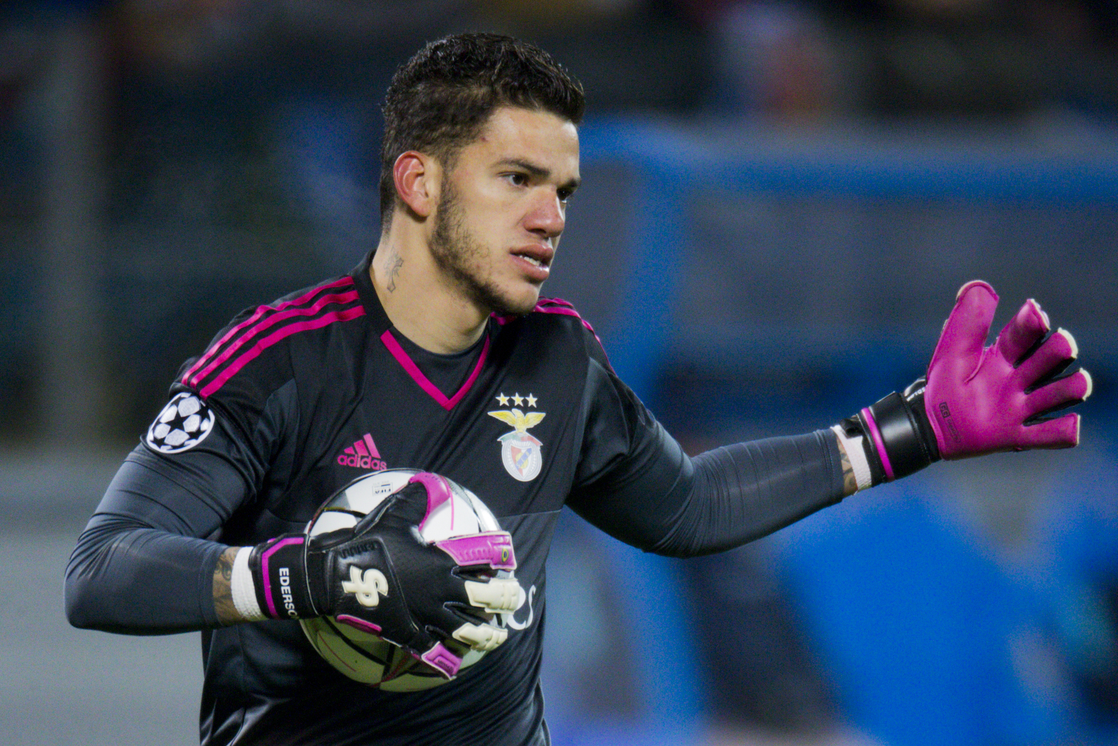 Ederson Santana de Moraes